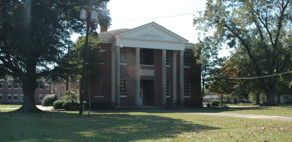 Built